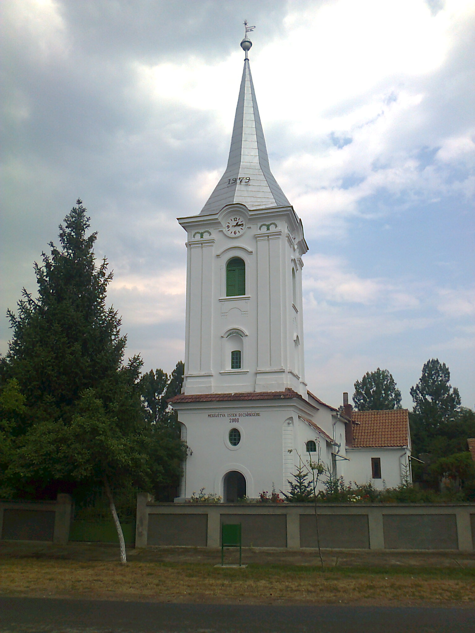 Reformed church in Bozies (Transylvania, Romania) built before 1785